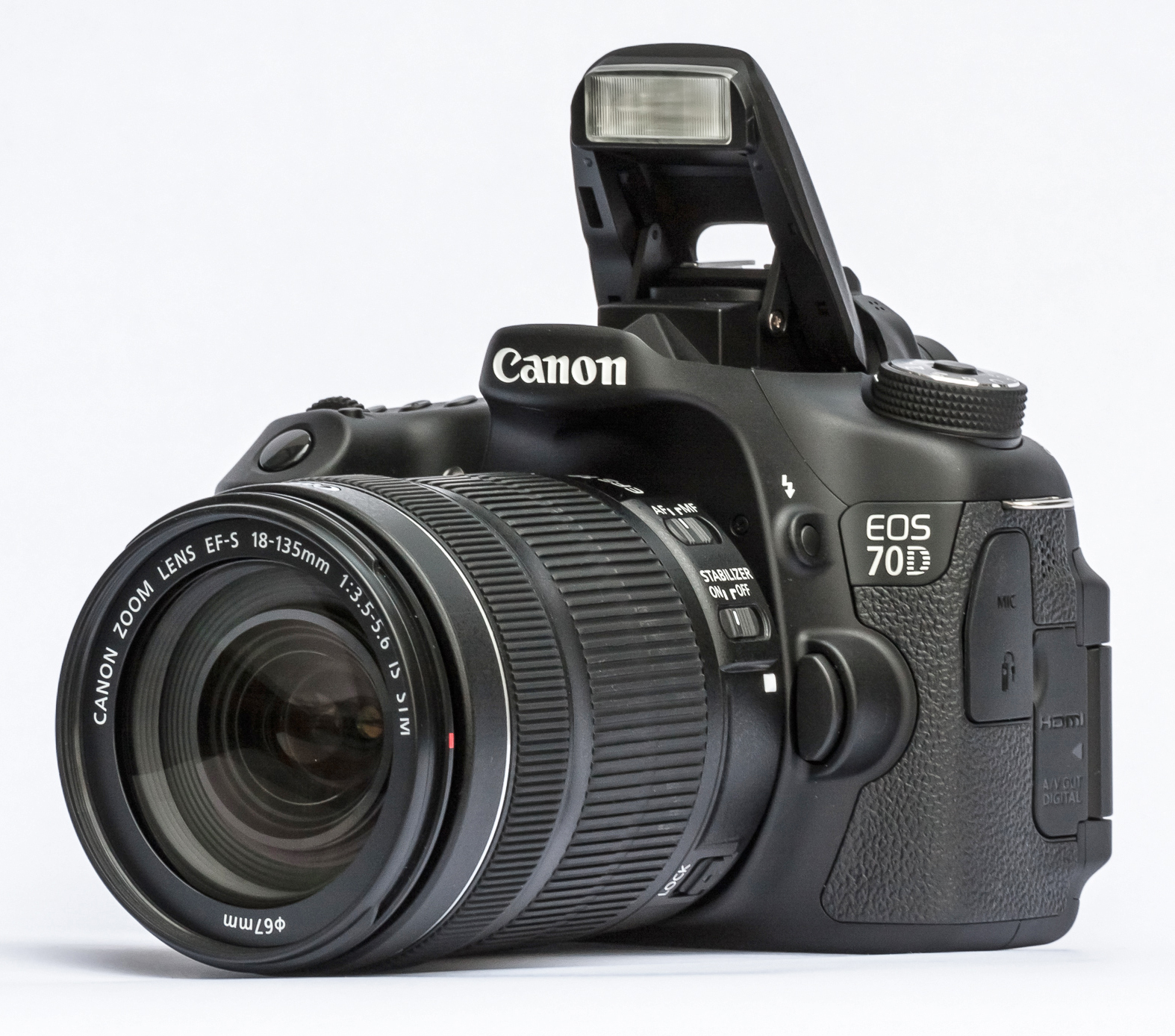 Cropped version of File:EOS70D 18-135STM flash.jpg